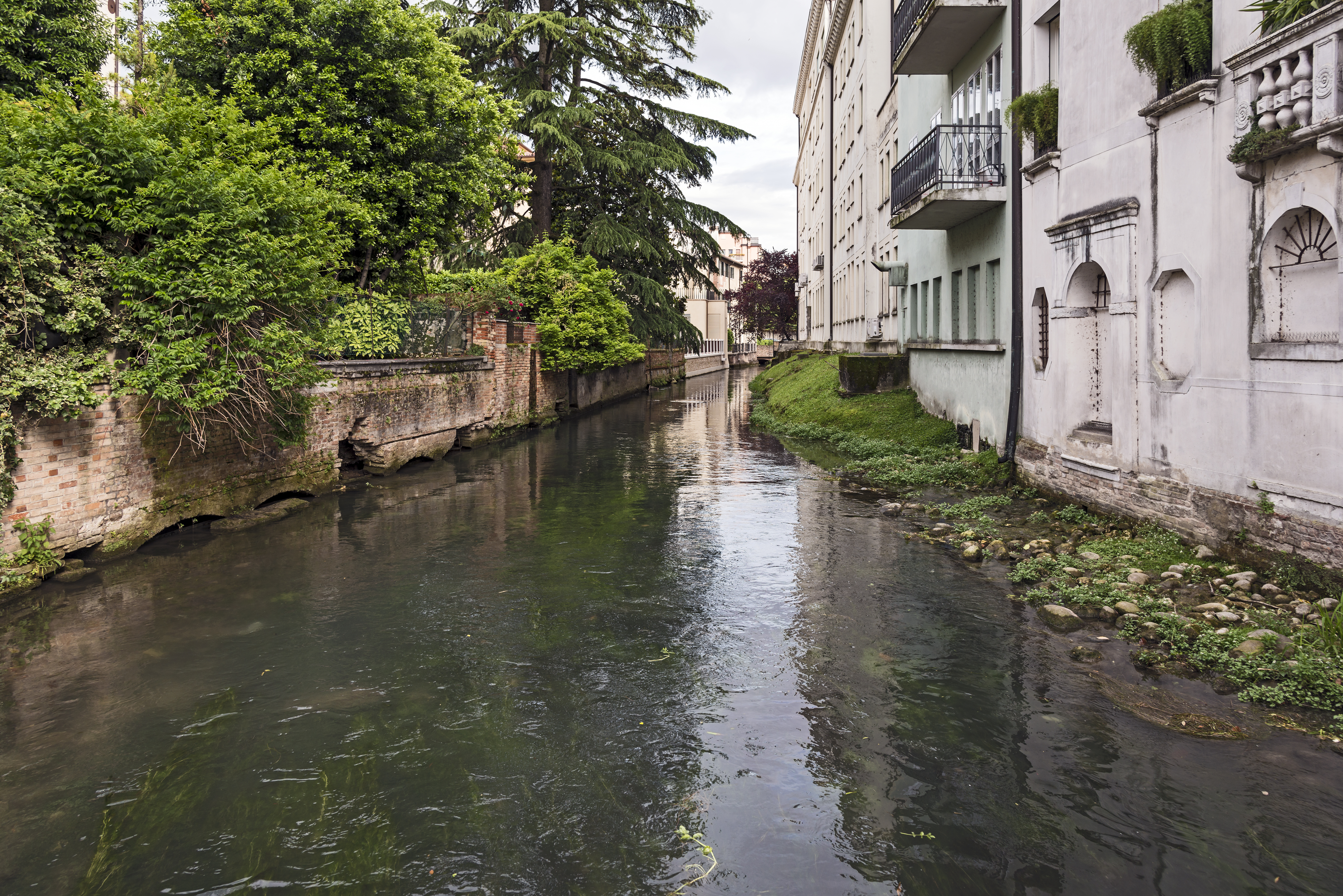 Cagnan della Roggia or Siletto in Treviso. View from ponte dei Mussolini